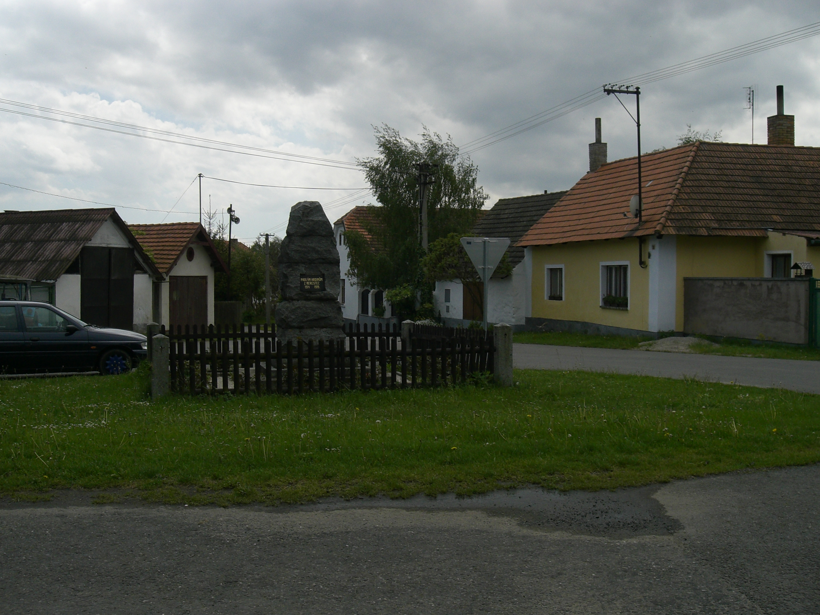 Dolní Nerestce village in Písek district, Czech Republic.